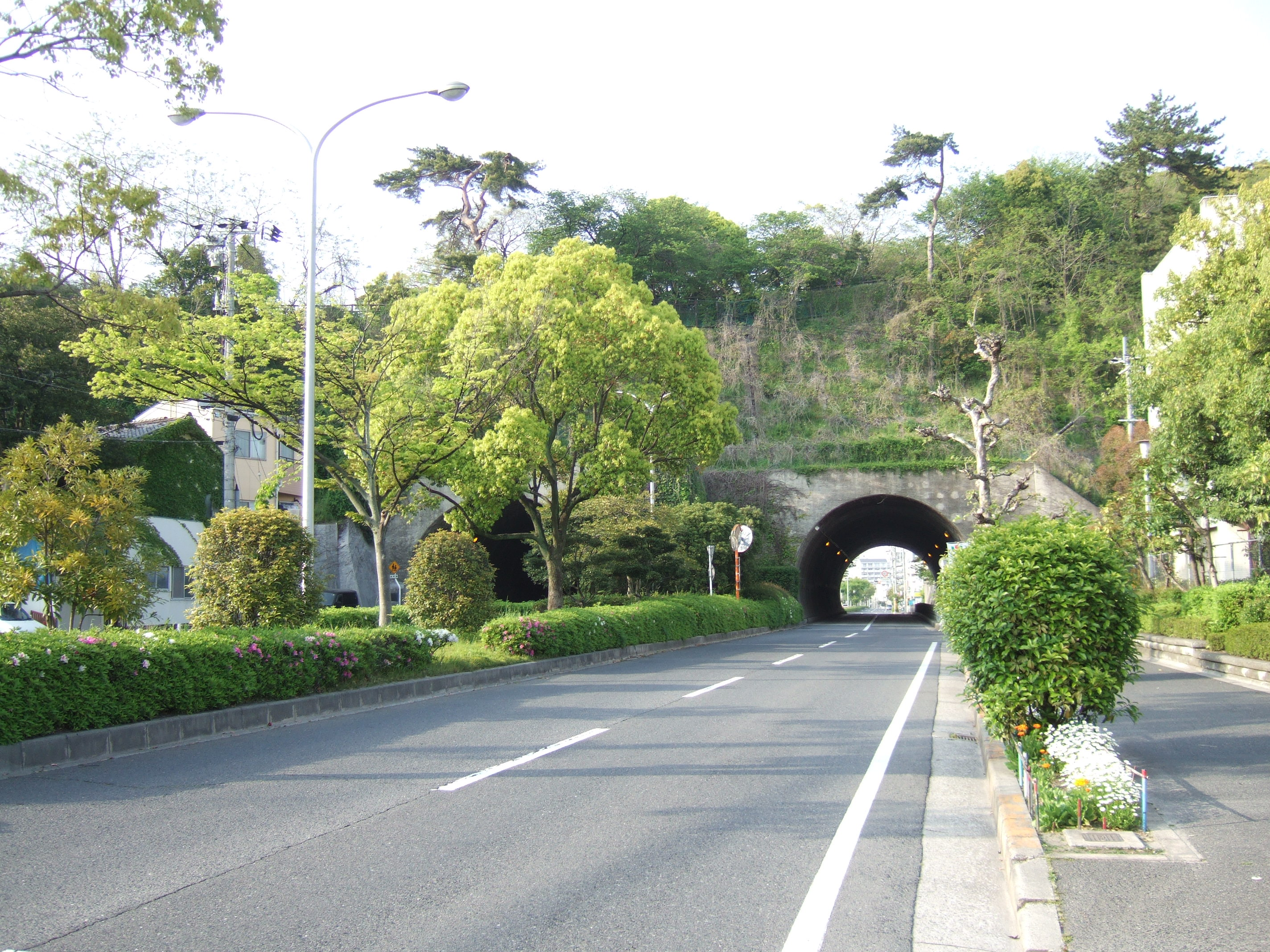 Ebayama Tunnel(Mount Eba)